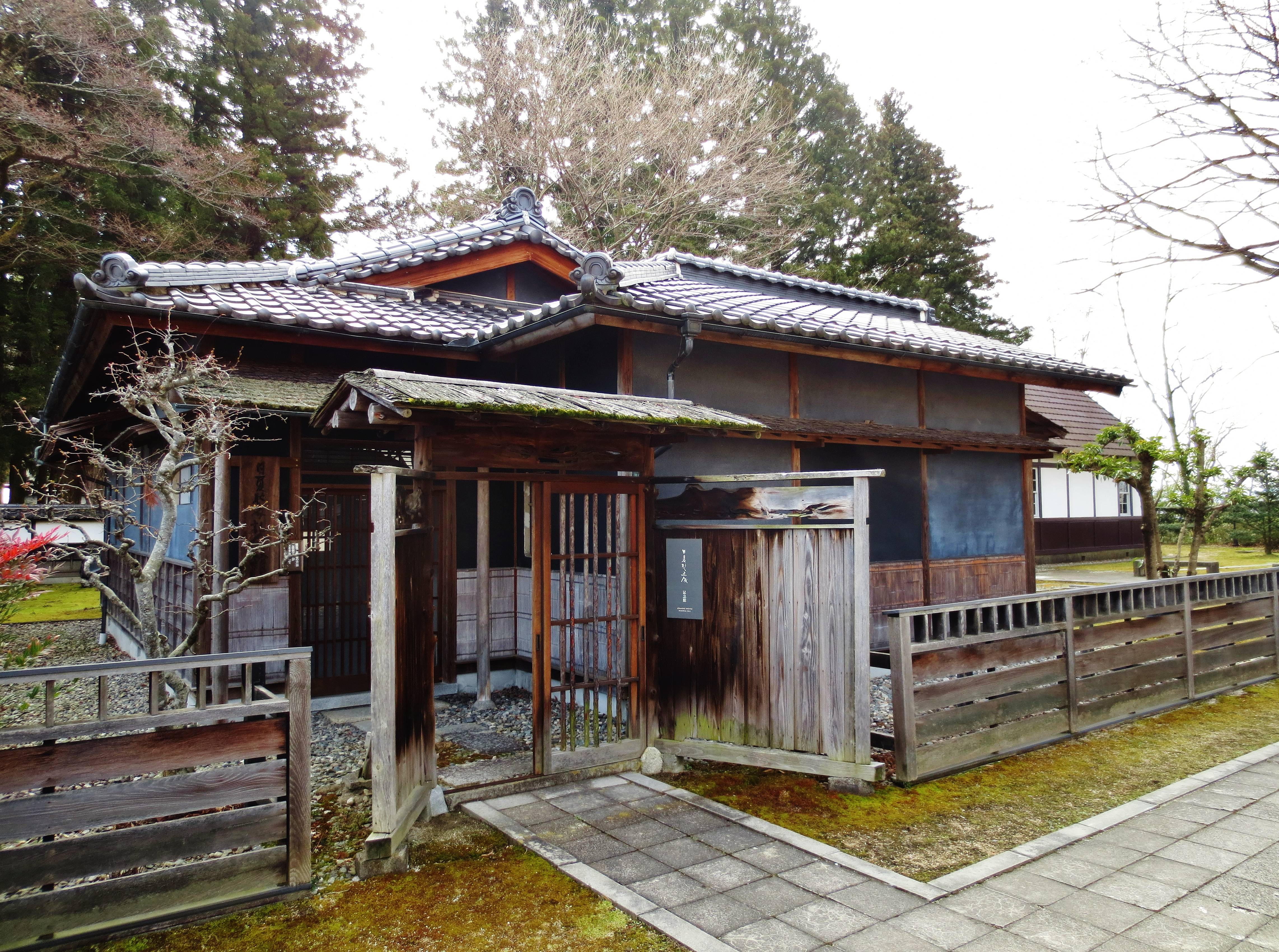 Kōnosuke Hinatsu Memorial Hall.